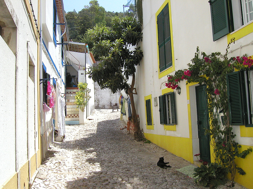 On a lazy summer afternoon.